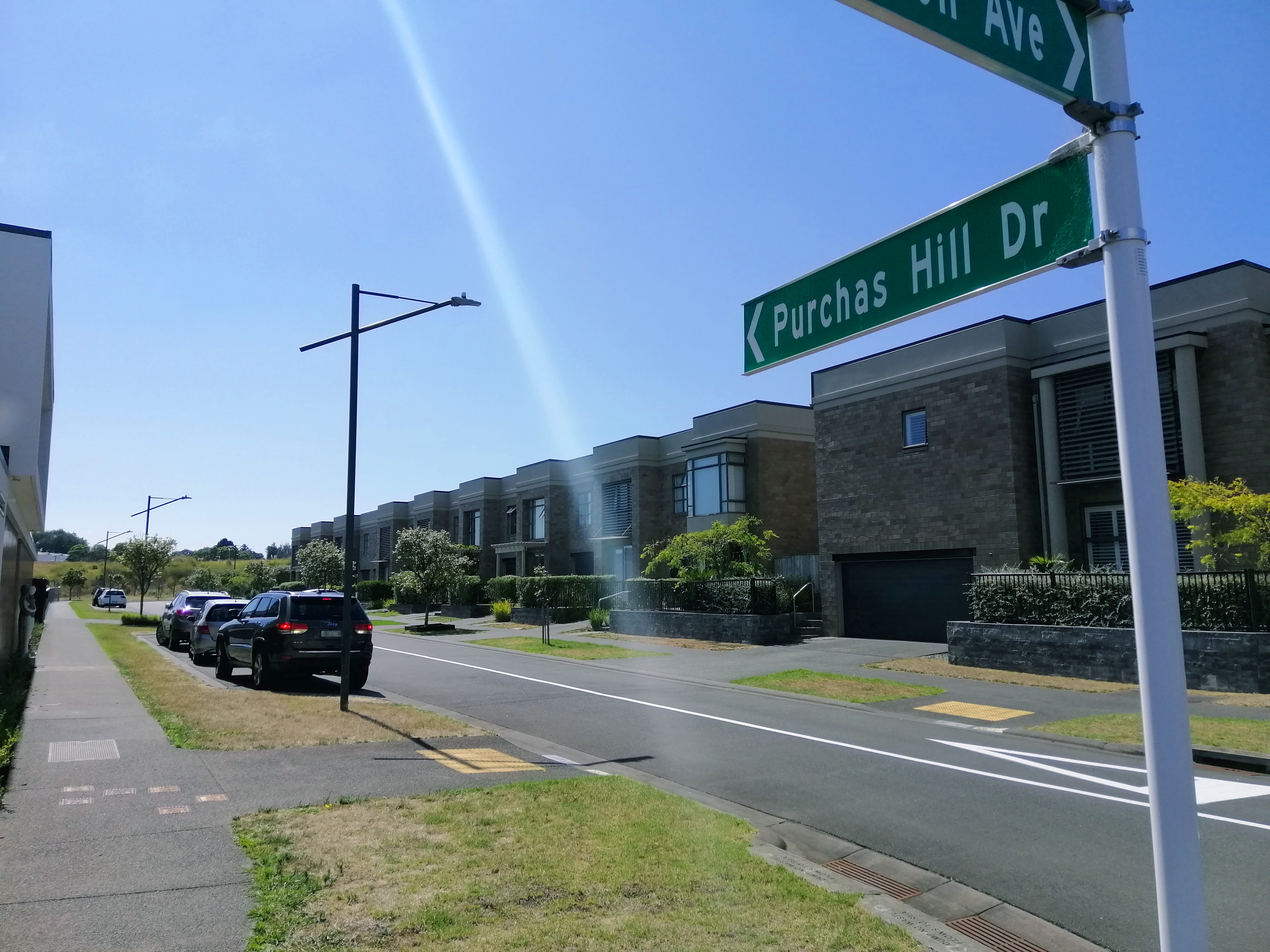 A photo looking down Purchas Hill Drive in Stonefields, Auckland. The road is named after Arthur Guyon Purchas, and is built in the location of Purchas Hill which has been predominantly quarried away.